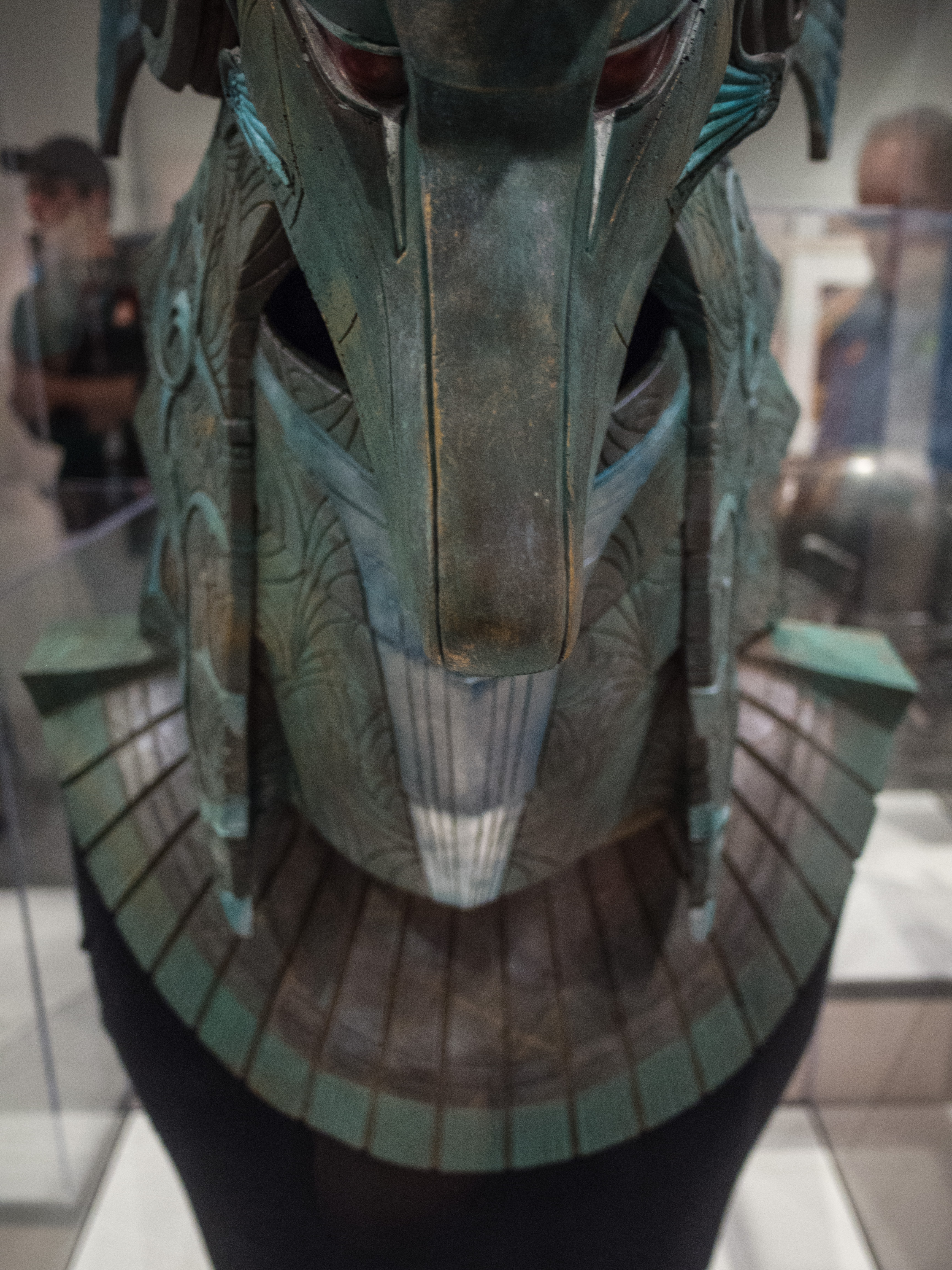 Anubis style helmet from Stargate SG-1, Icons of Science Fiction exhibit, Experience Music Project/Science Fiction Hall of Fame, Seattle.